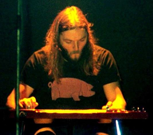 David Gilmour playing lap steel guitar with Pink Floyd, Festhalle, Frankfurt, Germany 26 January, 1977